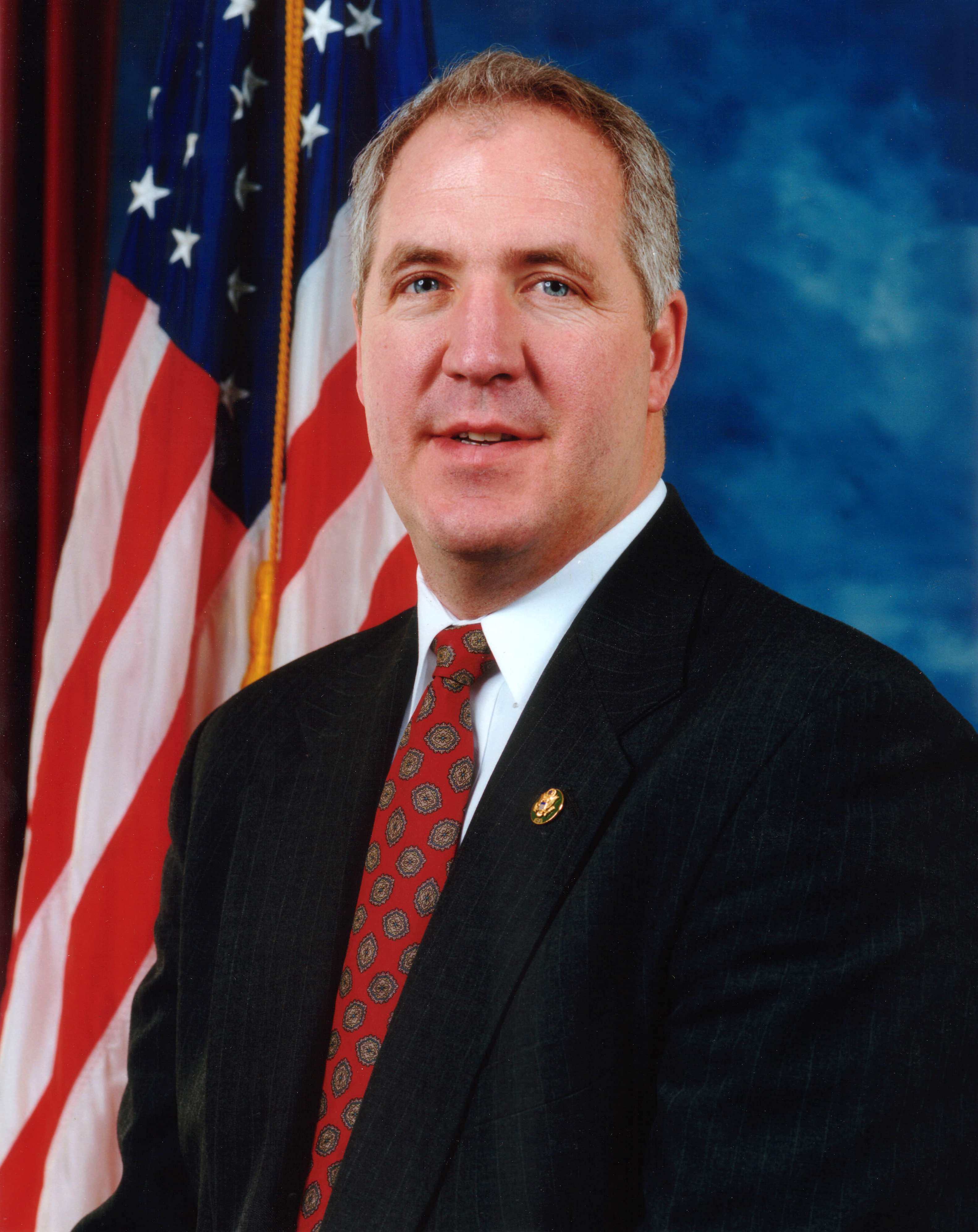 John Shimkus, U.S. Congressman (R-Illinois, 1997-present).